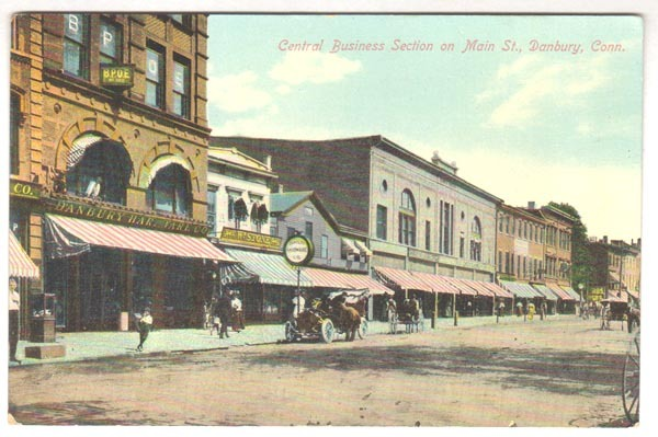 Postcard: Central Business District, Danbury, 1907 postmark Description: "1907 DANBURY CONN., CENTRAL BUSINESS SECTION [...] UNUSED. DIVIDED BACK." Caption: "Central Business Section on Main St., Danbury, Conn." Source: eBay store Web page